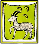 The Coat of arms of the Principality of Abkhazia from the geographic atlas by the Georgian scholar Prince Vakhushti Bagrationi, early 18th century